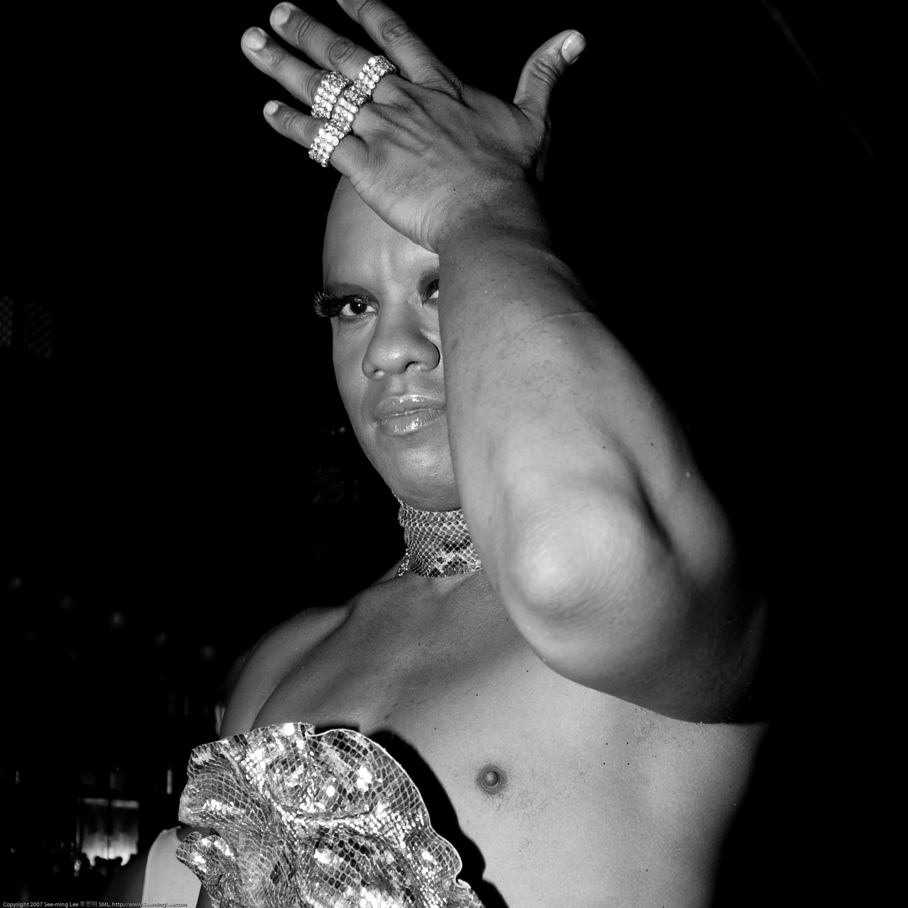 Kevin Aviance / Hiro at the Maritime Hotel 2007